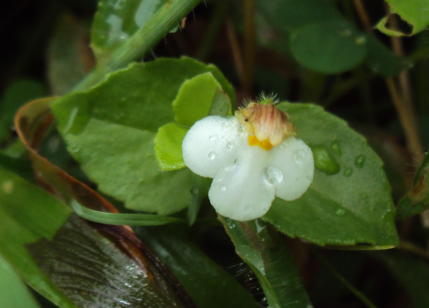 Lindernia nummulariifolia